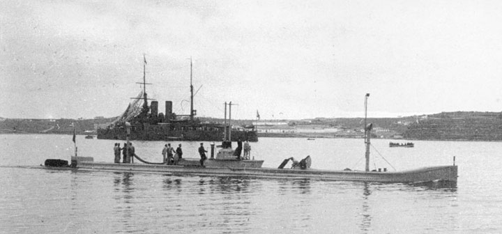 Submarine Karas' and battleship Rostislav at Sevastopol.